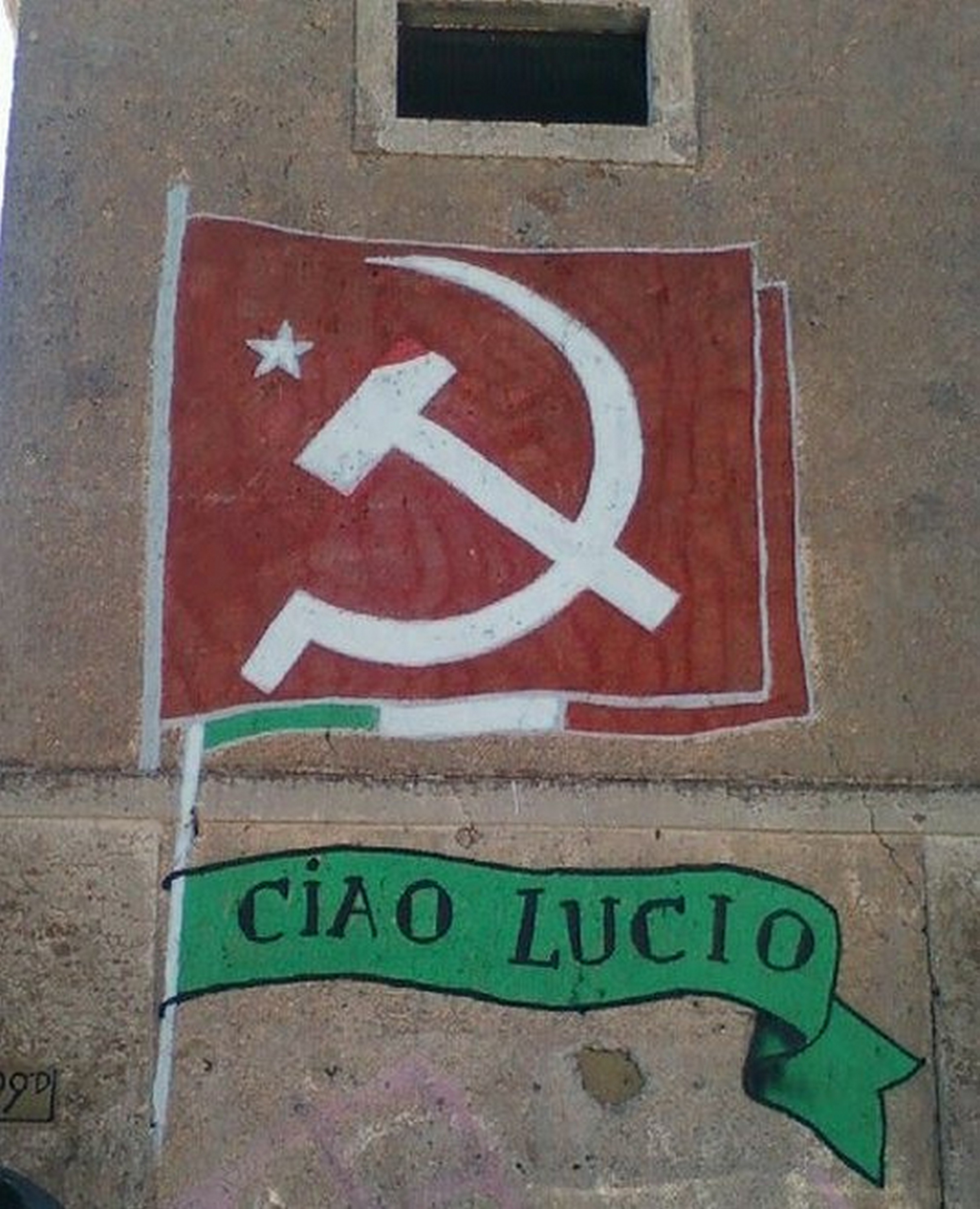 Political graffiti in Rome